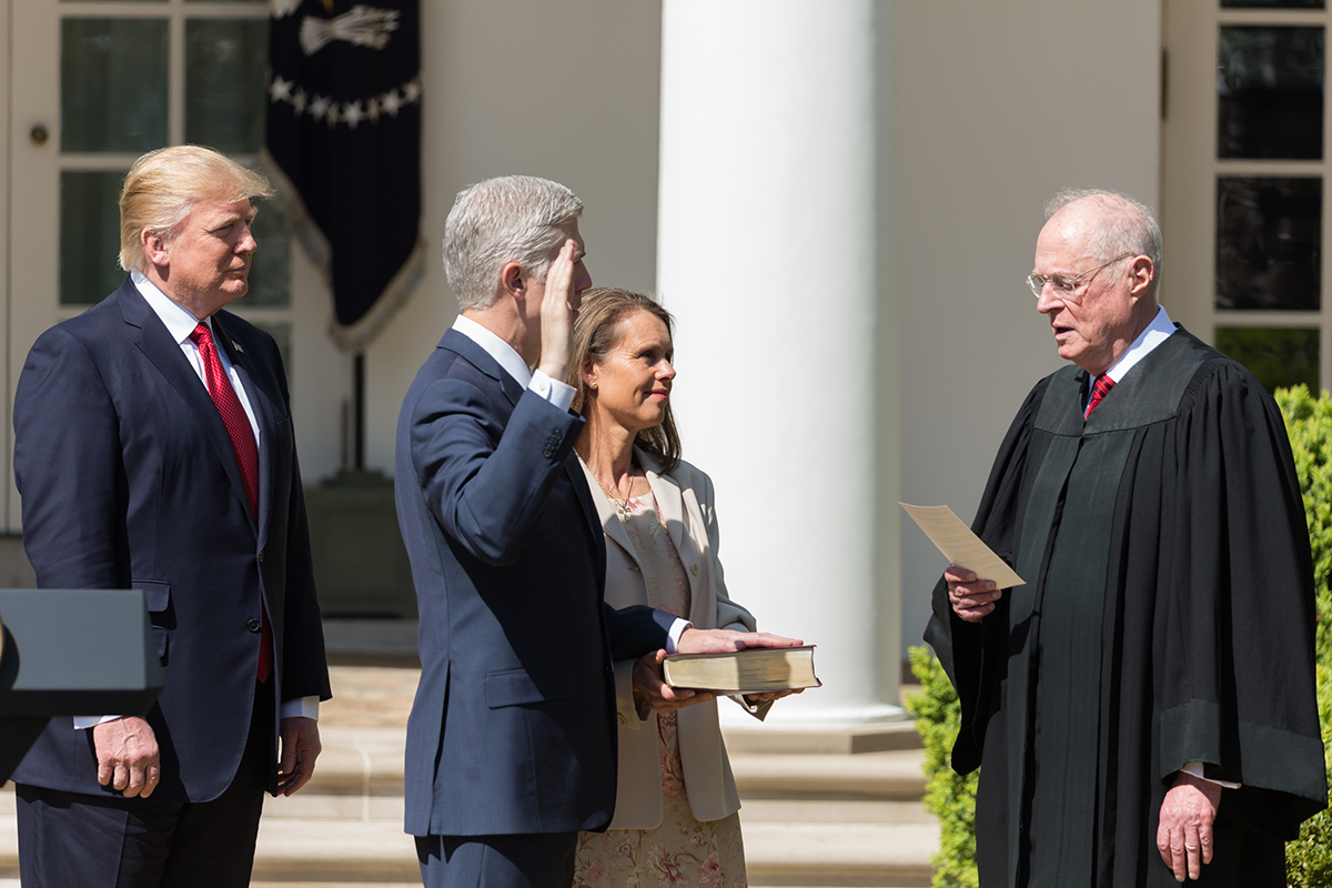 With President Donald Trump looking on, Anthony M. Kennedy, Associate Justice of the Supreme Court of the United States, swears-in Judge Neil M. Gorsuch to be the Supreme Court's 113th Justice, Monday, April 10, 2017, in the Rose Garden of the White House in Washington, D.C. Justice Gorsuch’s wife, Louise, held a family Bible. (Official White House Photo by Shealah Craighead)